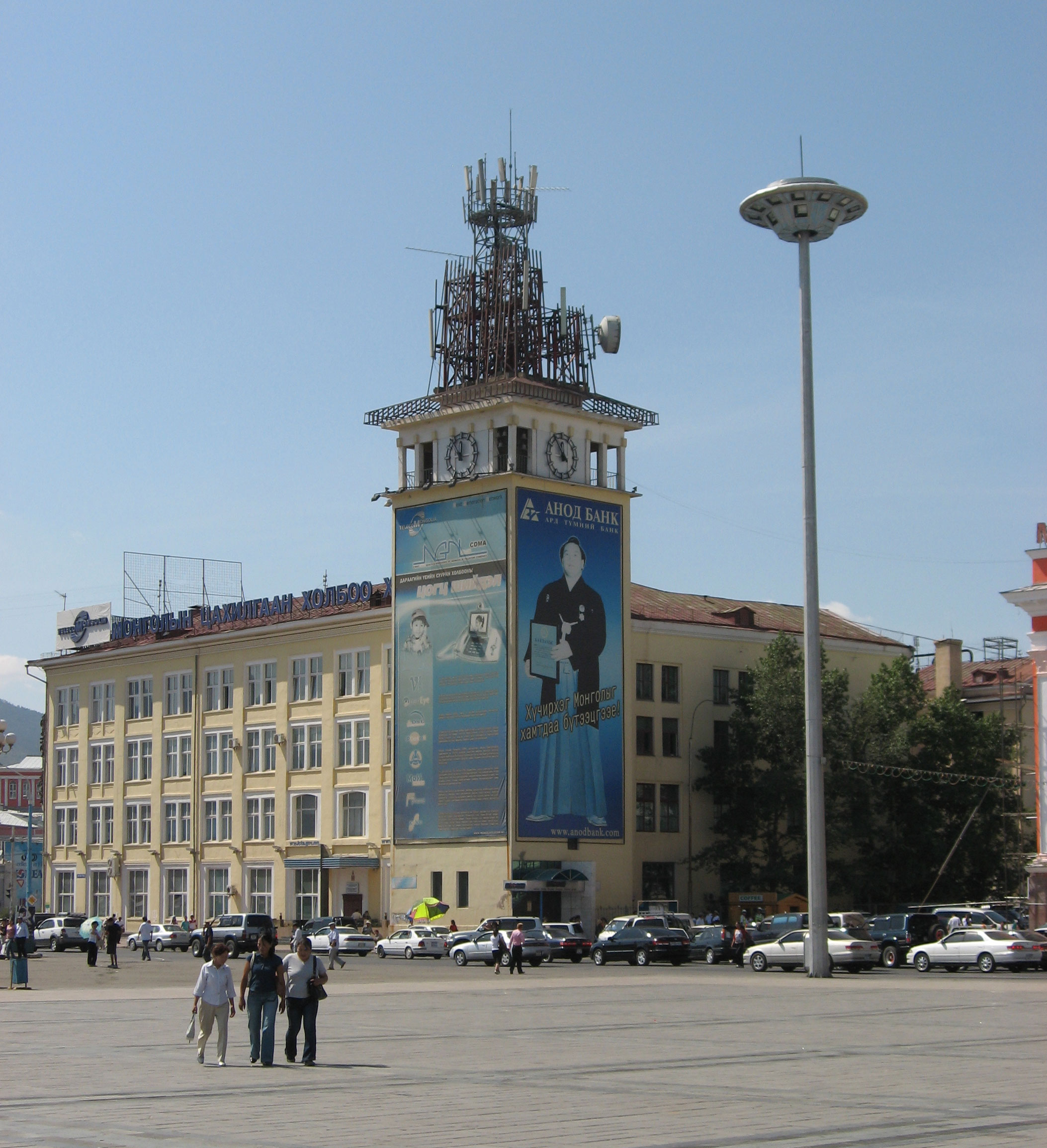 Central Post Office in Ulaanbaatar, Mongolia